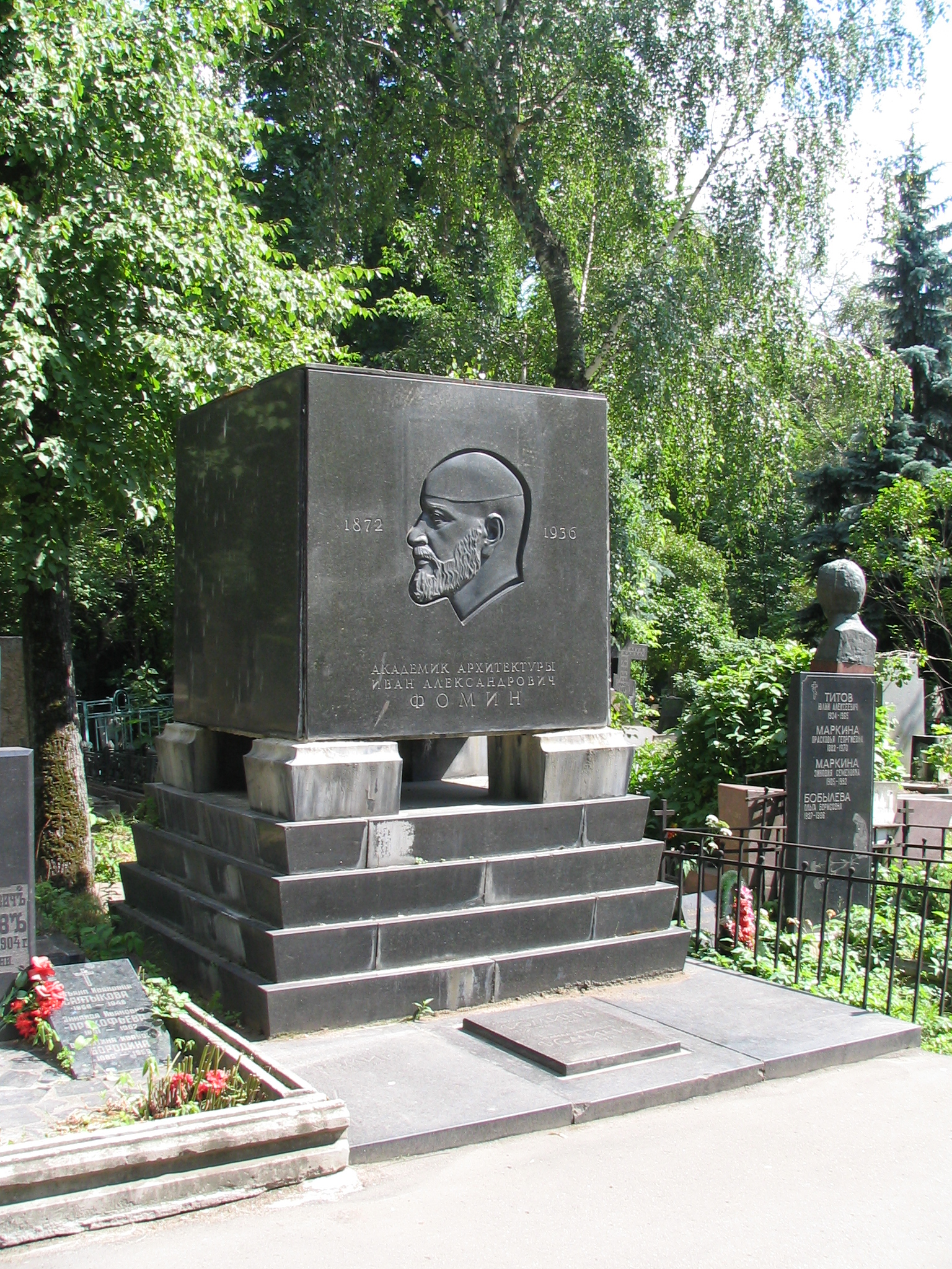 Nadgrobie Fomina